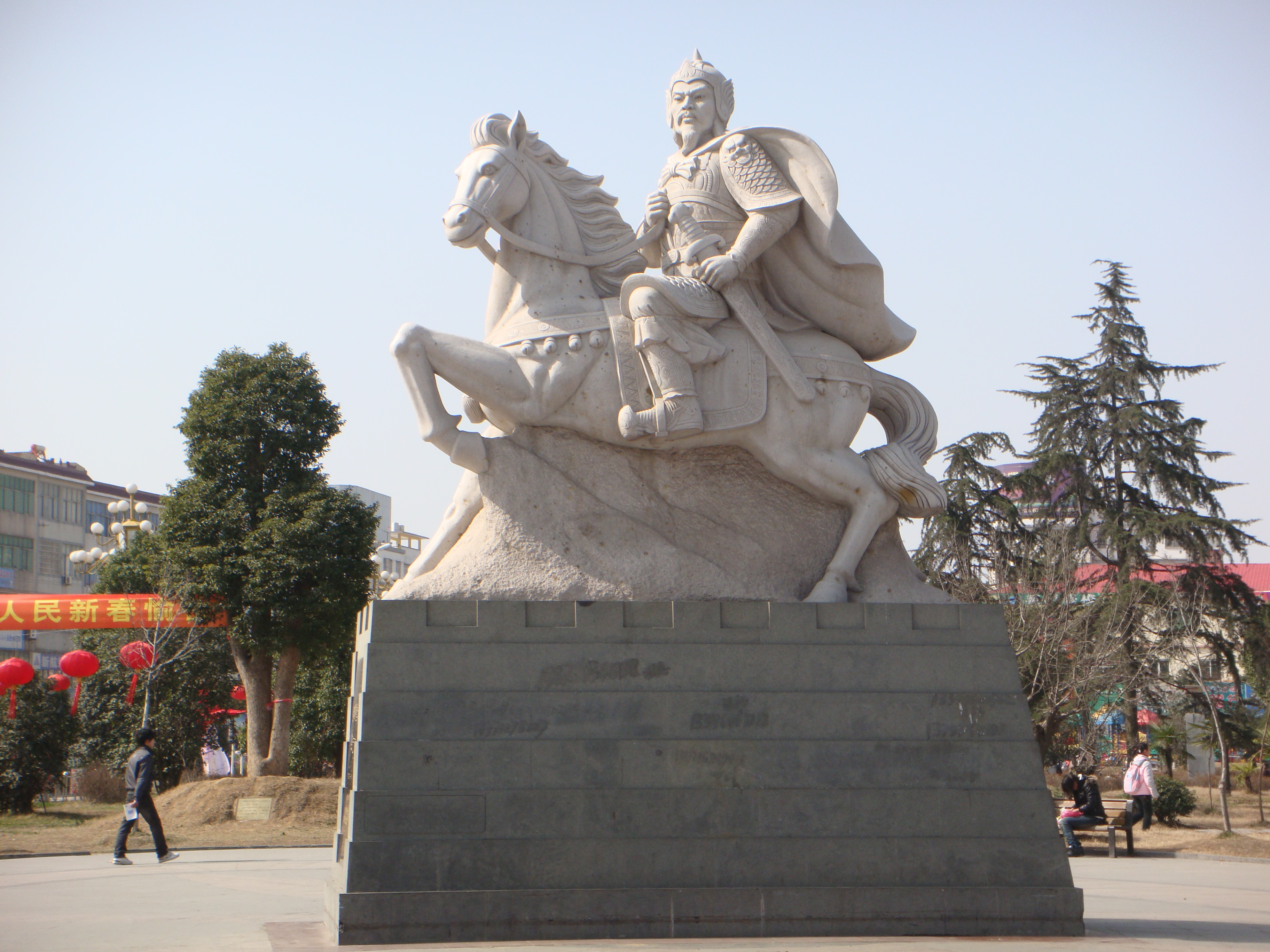 a Statue of Chenyuanguang 中文（中国大陆）: 固始县陈元光广场上树立的陈元光的雕像，由云霄县捐赠